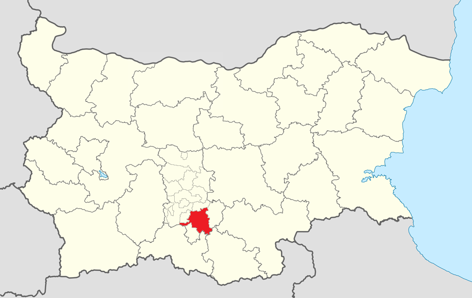 Location map of Asenovgrad Municipality within Bulgaria and Plovdiv province